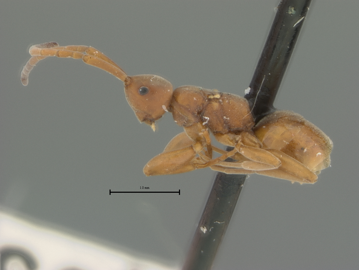 Embolemus nearcticus female, specimen from Scotland Co. North Carolina, USA; in woods trash